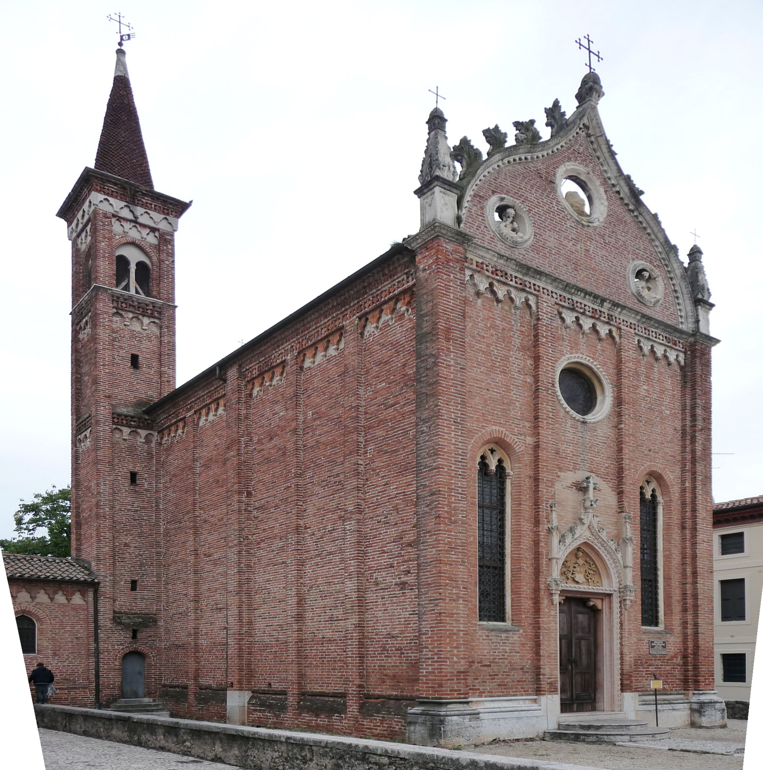 Thiene, province of Vicenza, Italy. The Oratory of the Nativity of Virgin called "Chiesetta Rossa", corso Garibaldi, built in 1476, was the chapel of the Castle of Thiene.